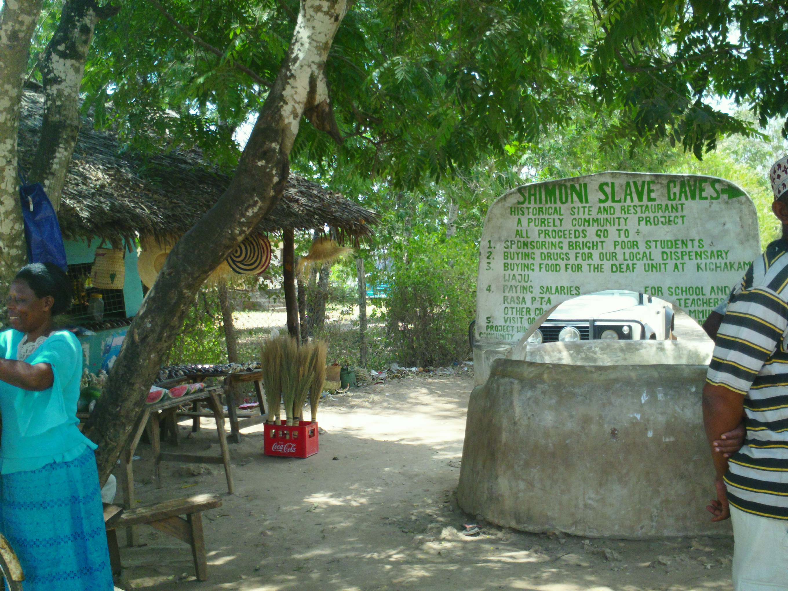 The Shimoni Slave Cave well sign.